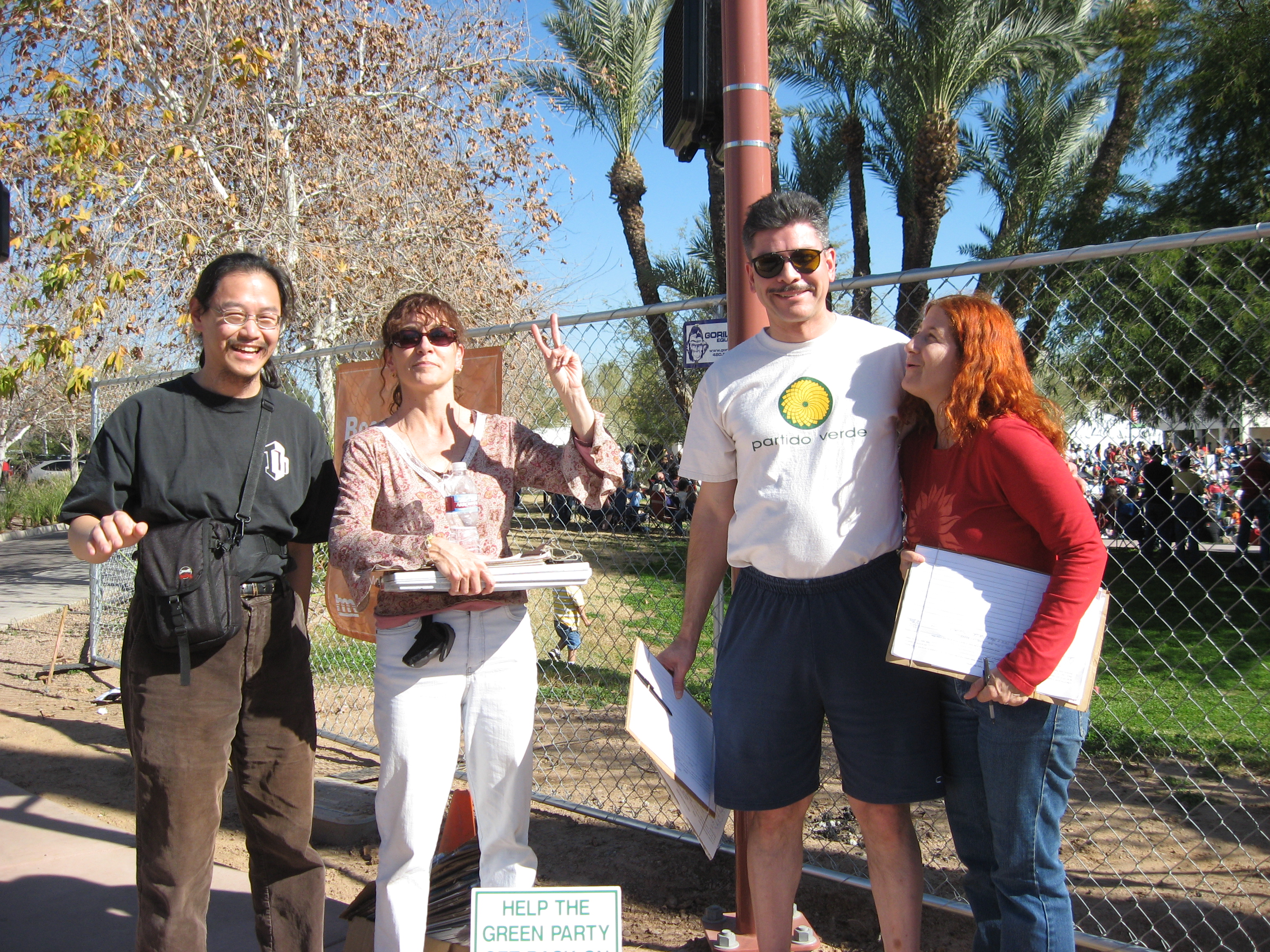 Activists of the Arizona Green Party collecting signatures for ballot status. The person in the Partido Verde shirt appears to be the co-chair of the Arizona Green Party, Angel Torres of Phoenix [1].